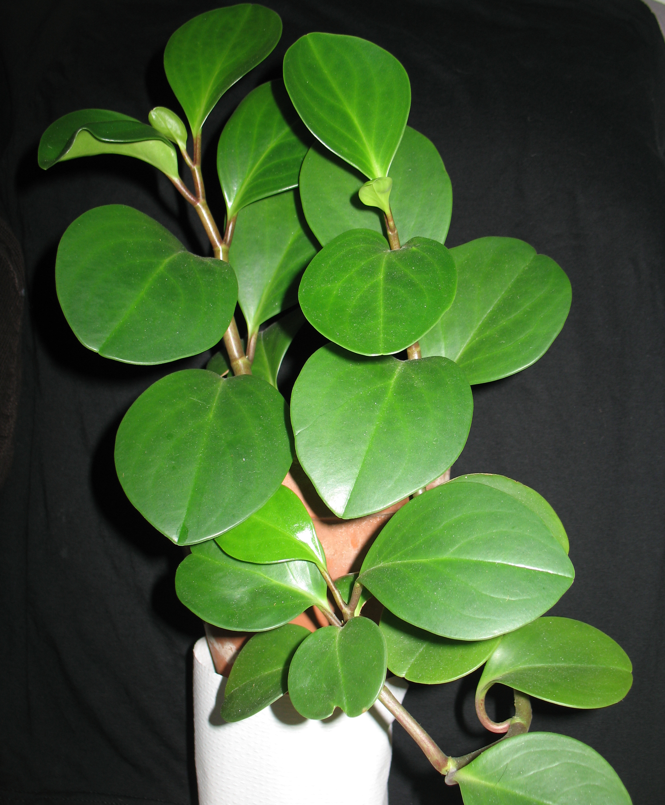 Peperomia obtusifolia